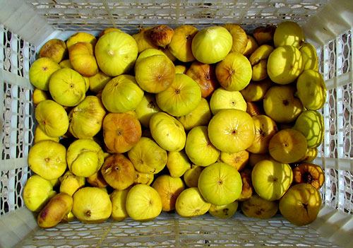 Fresh figs, Kerman, Iran